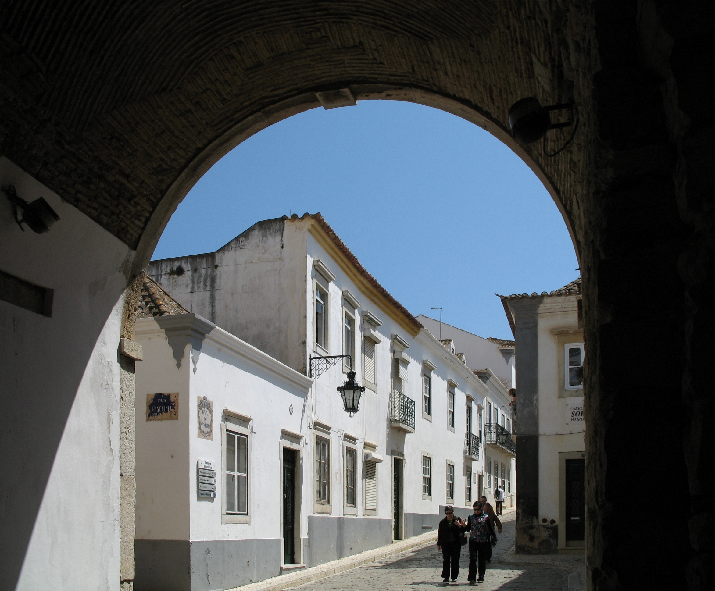 Faro (Algarve, Portugal): the Rua do Municípia in the old town